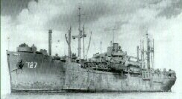 Allendale (APA-127) underway, date and place unknown.